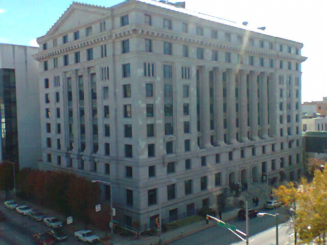 Fulton County Courthouse in Atlanta